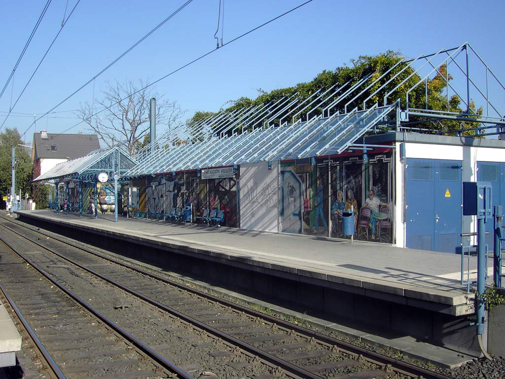 Urban railway stop Sankt Augustin Mülldorf of the Siegburger Bahn in Sankt Augustin.